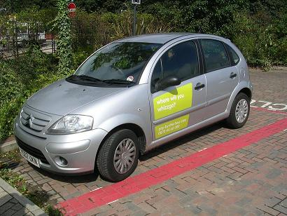 I took the picture myself